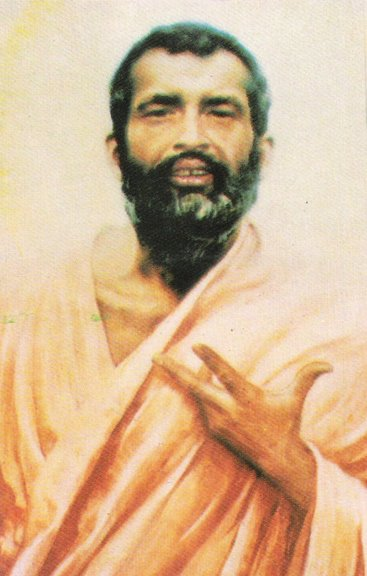 Painting of Ramakrishna by Franz Dvorak.